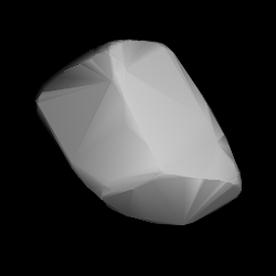 3D convex shape model of 12374 Rakhat, computed using light curve inversion techniques. J. Hanuš, J. Ďurech, M. Brož, B. D. Warner (June 2011). "A study of asteroid pole-latitude distribution based on an extended set of shape models derived by the lightcurve inversion method". Astronomy and Astrophysics 530: A134. ISSN 0004-6361. arXiv